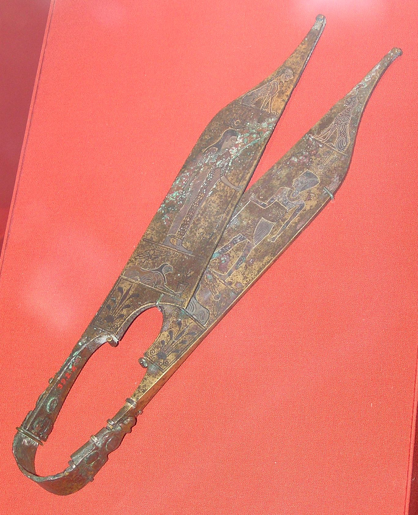 This picture was taken at the Metropolitan Museum in New York City in 2006 by Yannick Trottier. The exhibit was labelled as follows: 39.2.2 Perhaps 2nd century A.D. Said to be from Trabzon, northeastern Turkey (ancient Trebizond) Bronze inlaid with silver and black copper(?) Rogers Fund 1939 (39.2.2) This piece is remarkable for its rich inlays. Both sides of each blade are decorated with three registers of figures. Whoever created the design clearly had a sense of humour; when the shears are closed, the top register brings a dog face-to-face with a cat on one side and a lion with a lion on the other. The combination of vague iconography, attenuated drawing, and dour expressions marks the shears as an "Egyptianizing" rather than an actual Egyptian style. Perhaps they served a ritual function at an Isis sanctuary at ancient Trebizond on the Black Sea.